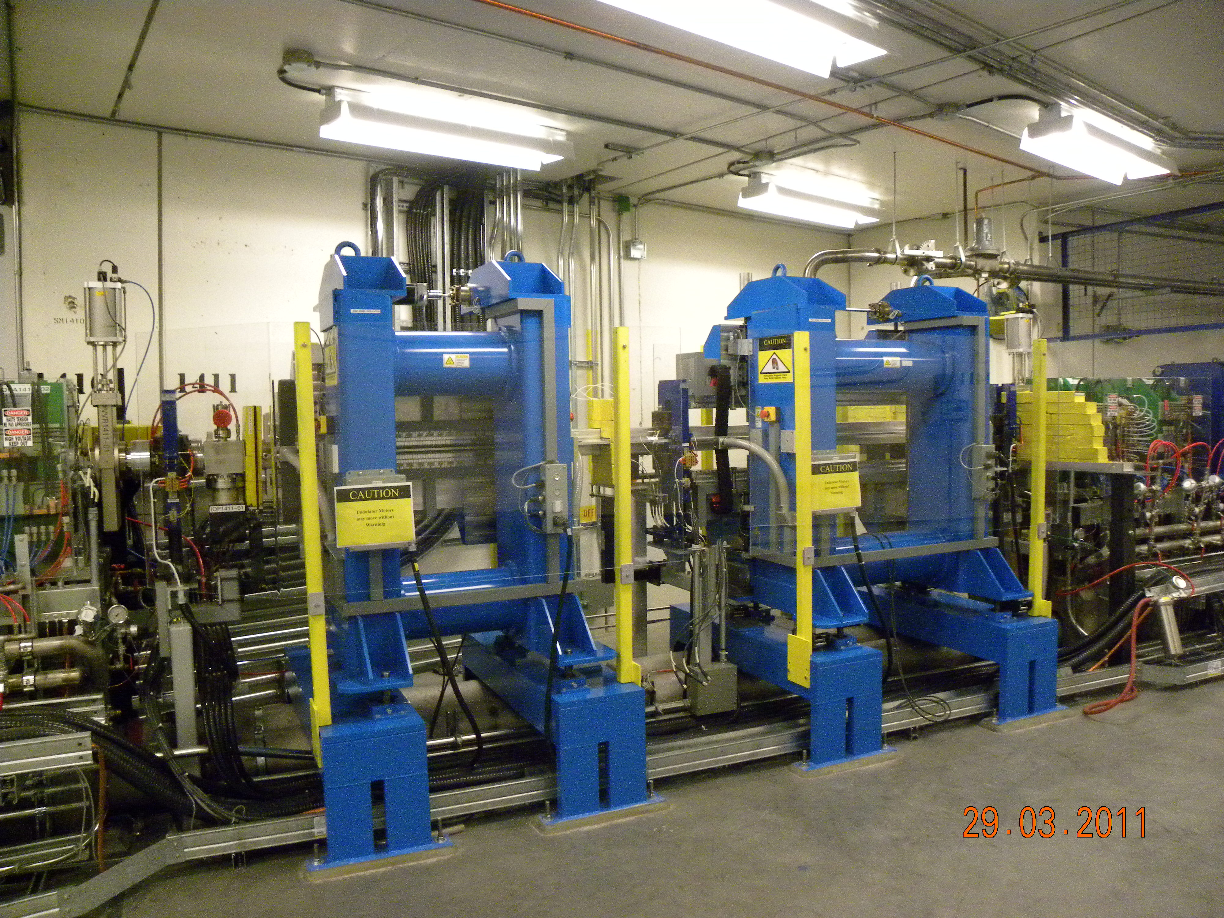 The undulators for the SGM (L) and VLS-PGM (R) beamlines share straight section 11, split by a chicane section. Canadian Light Source synchrotron